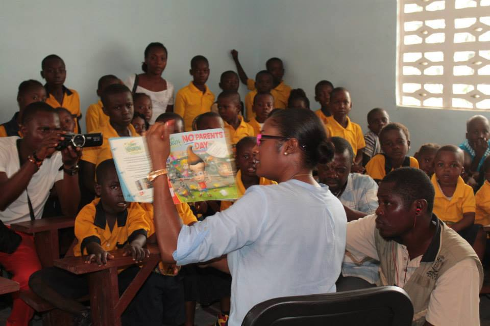 Mayor Gibson reads to students at the T-Five Academy Junior & Senior High School